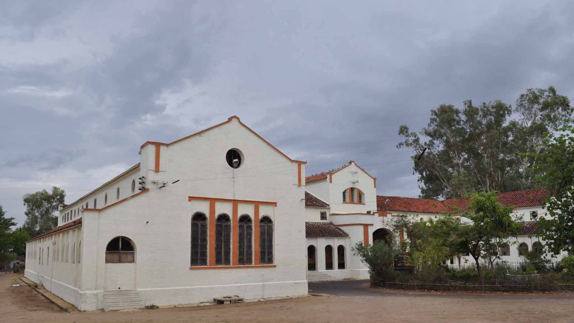 Jabalpur Engineering College (JEC)'s Chemistry Department.